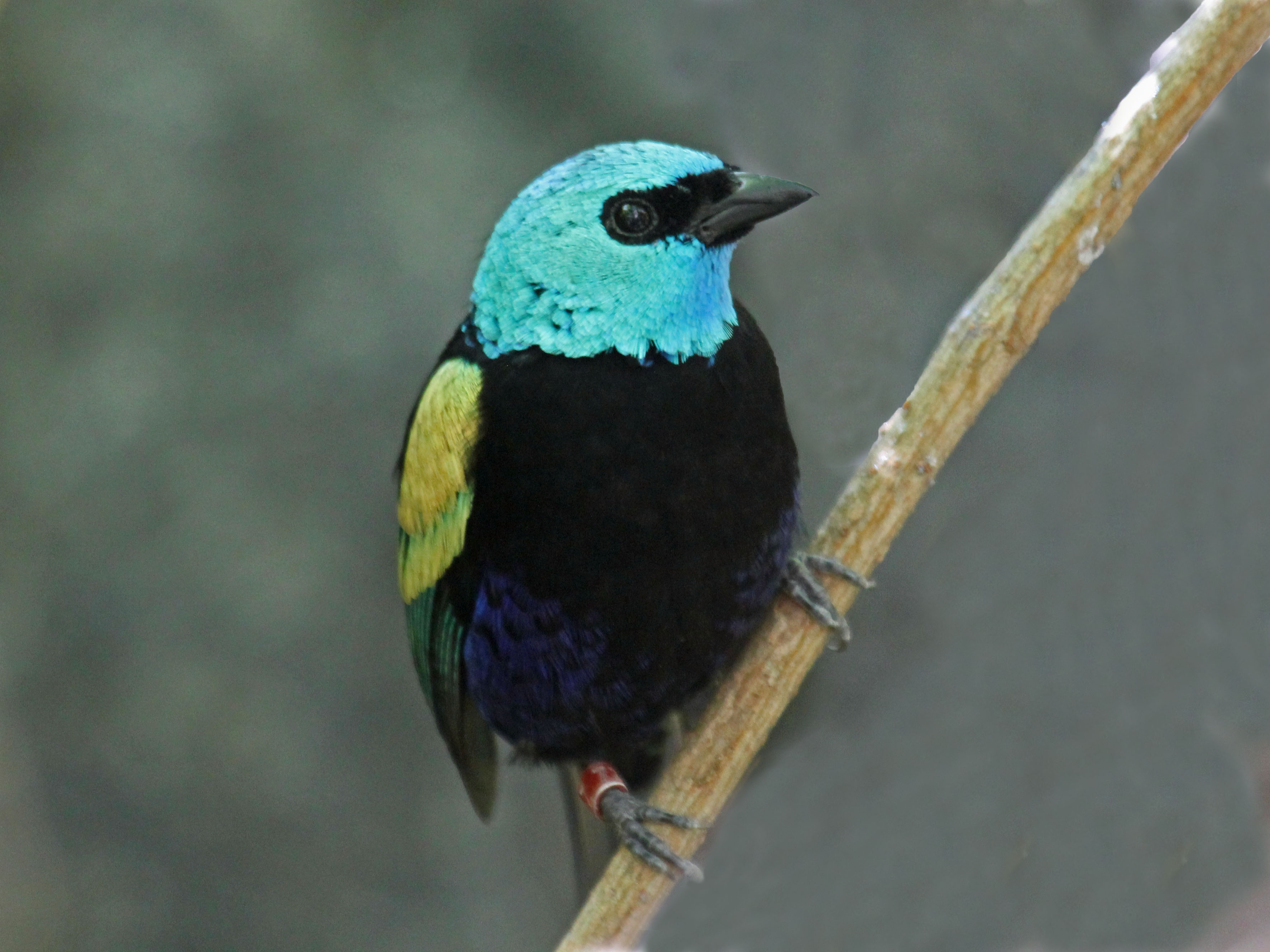 Blue-necked Tanager (Tangara cyanicollis) - San Diego Zoo. This is the subspecies Eastern Blue-necked Tanager (Tangara c. coeruleocephalus).